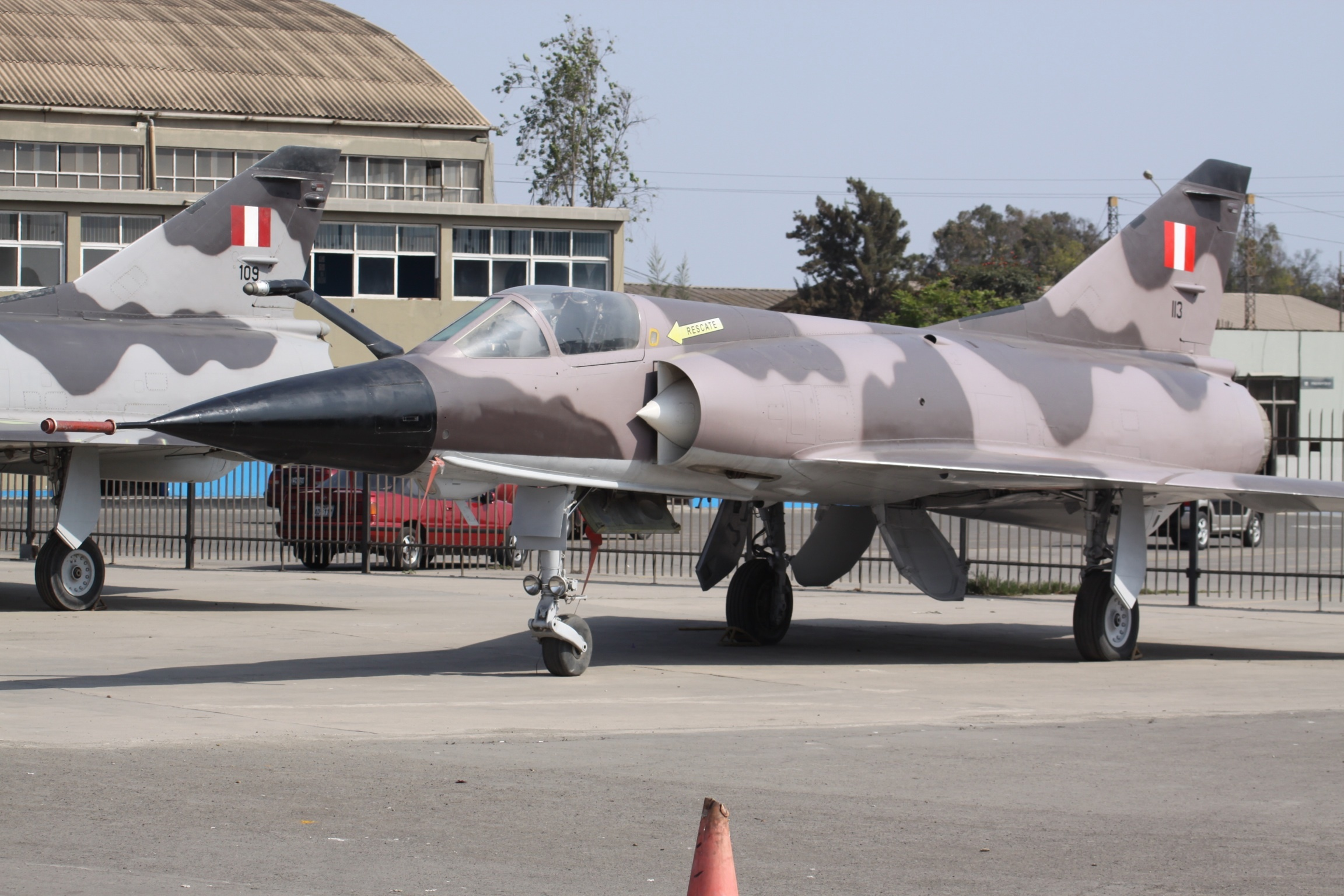 At Lima Las Palmas Airforce Base